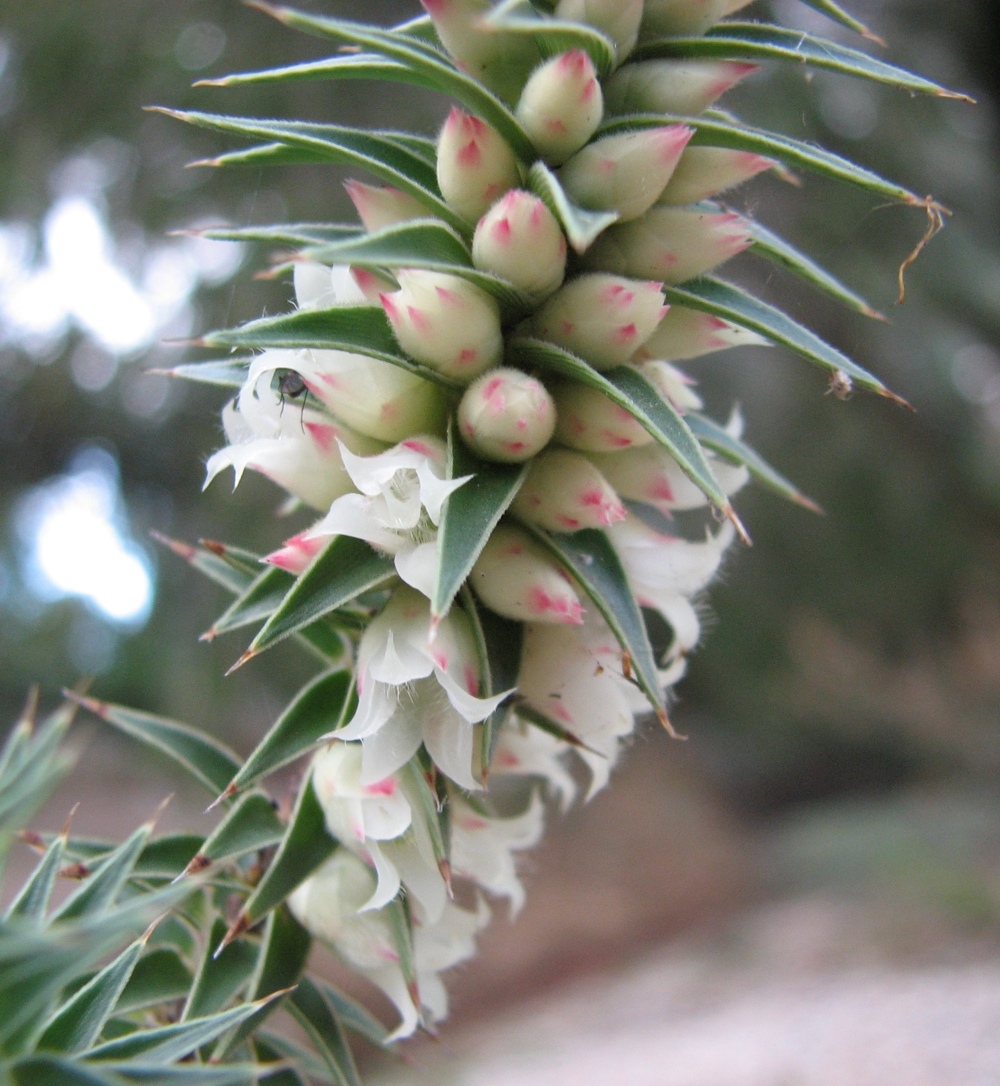 Melichrus urceolatus (cultivated, labelled) Maranoa Gardens, Balwyn, Victoria, Australia